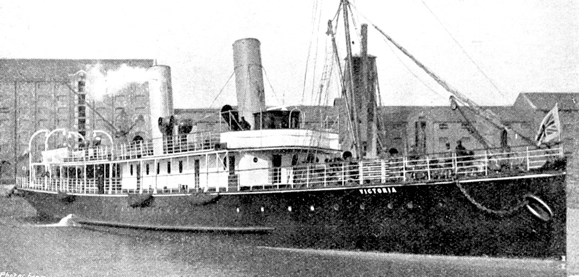 Victoria, the LSWR twin screw steamer being used as a tender for landing passengers from American liners at Devonport, Plymouth in 1904